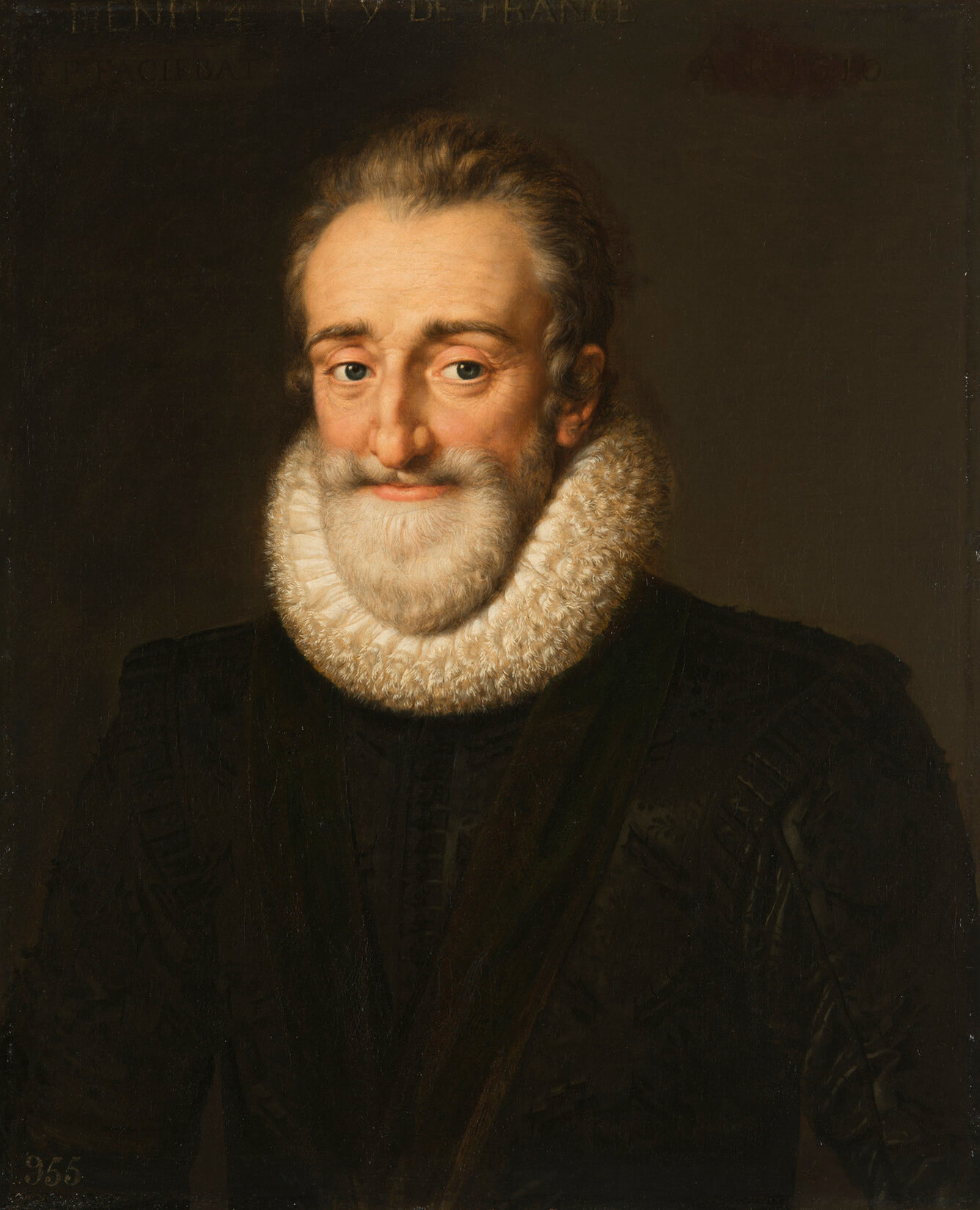 Henri IV (1553-1610), King of France